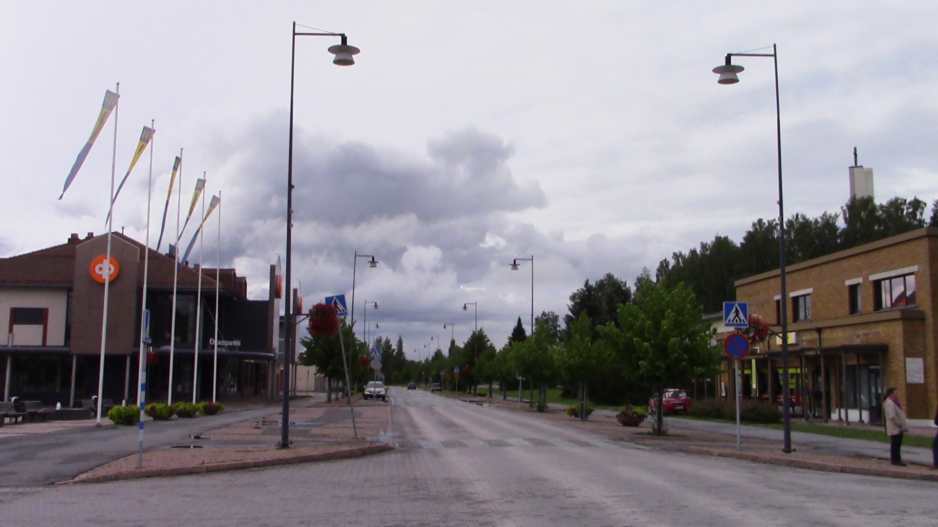 Porintie road in Nakkila, Finland. Picture's taken from the crossing of Kauppatie and Torikatu streets.